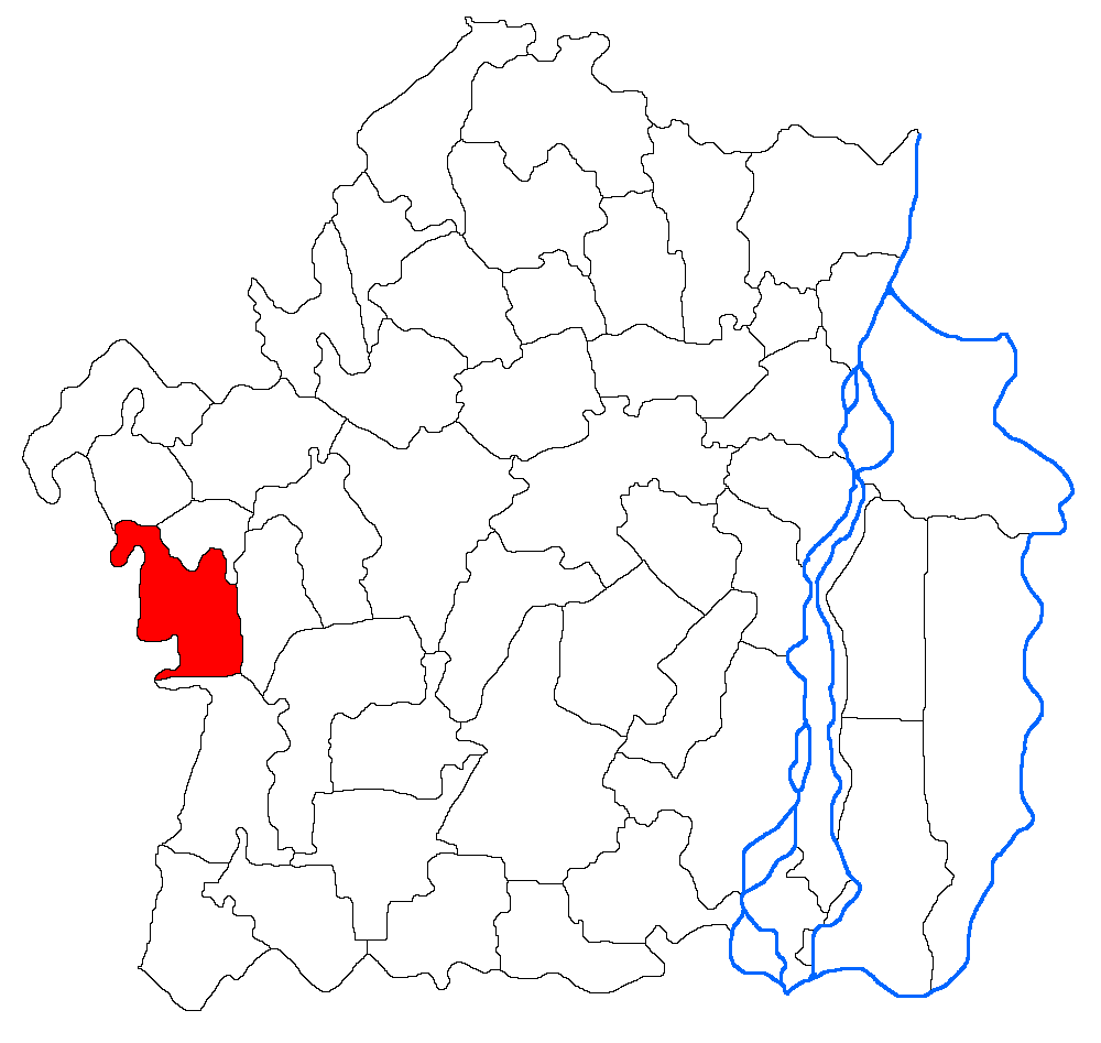 Limits of the commune of Surdila-Greci in Brăila County, Romania